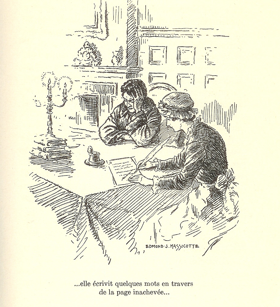 Illustration of traditional life in Québec by Edmond-Joseph Massicotte